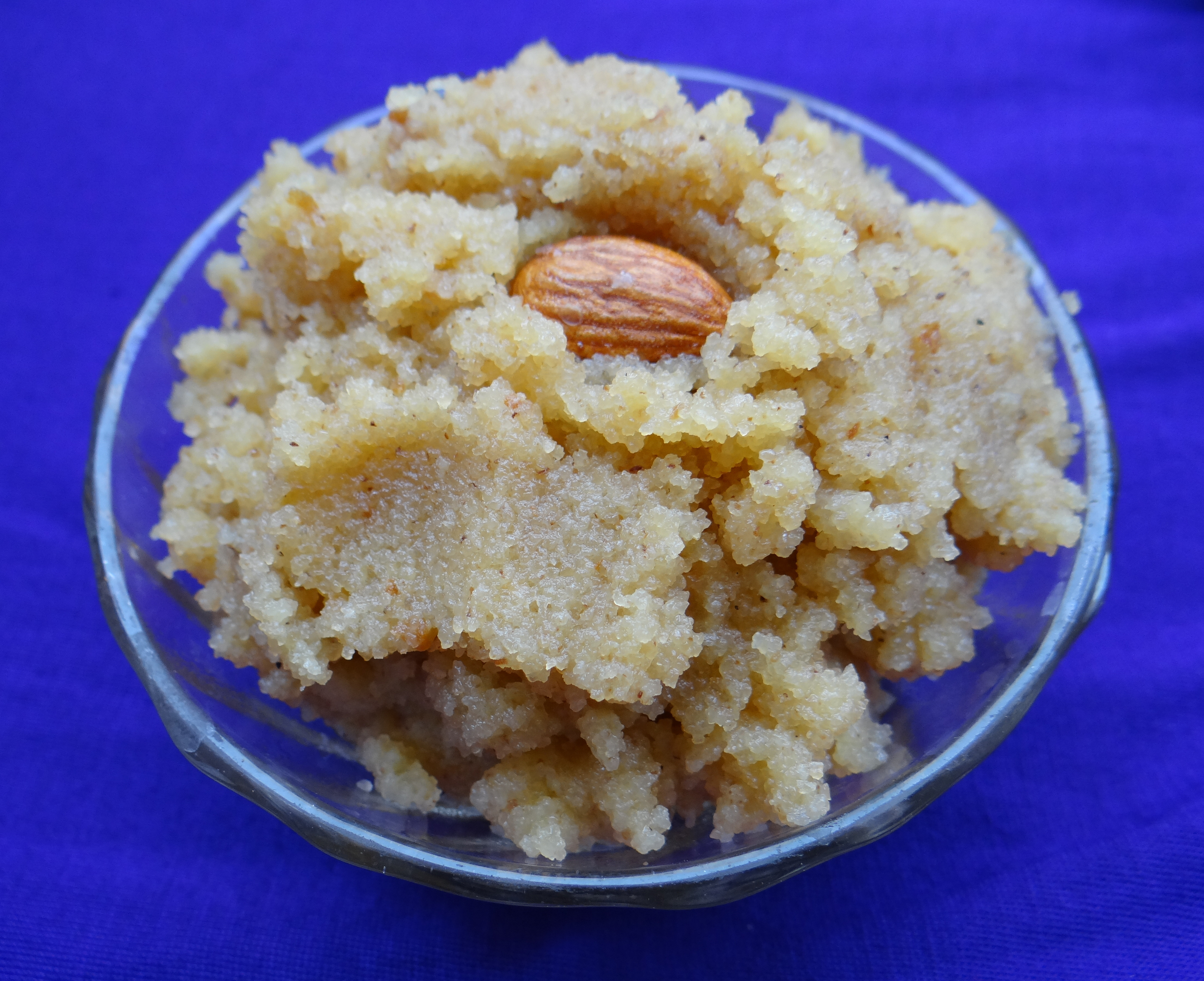 Sooji Halwa is a very popular Indian sweet dish often made on any festival.